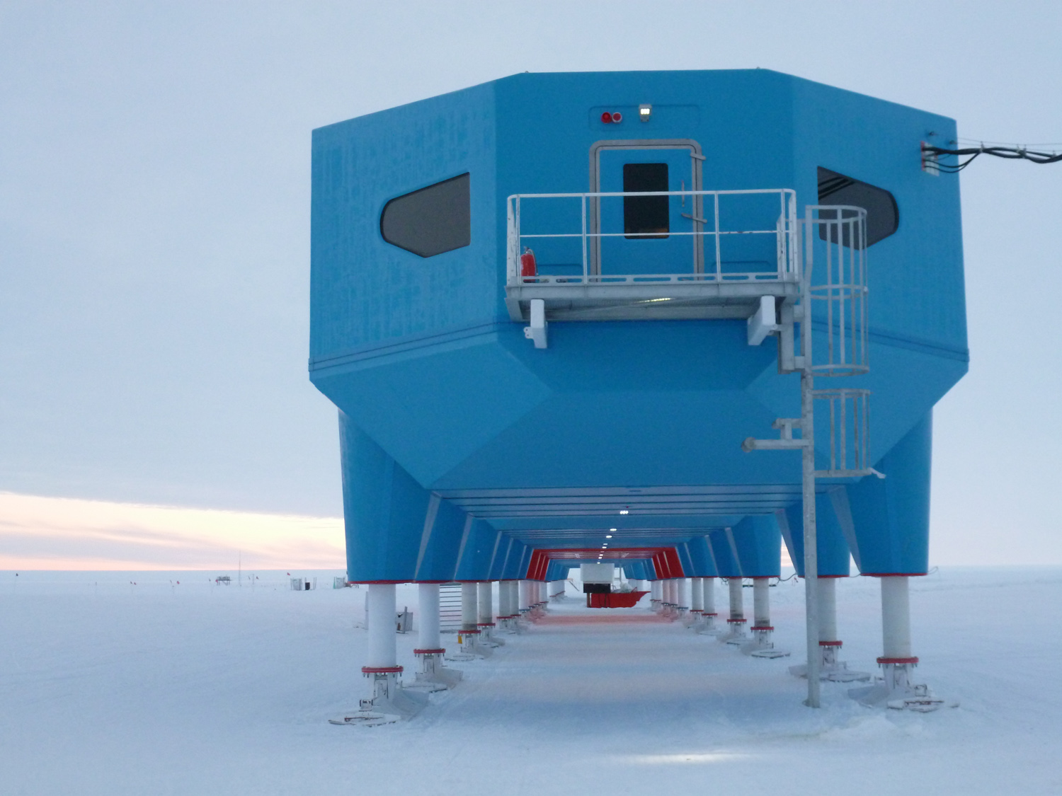 The Halley Research Station is a research facility in Antarctica. This image is of the Halley VI buildings consisting of a string of eight modules jacked up on hydraulic legs to keep it above the accumulation of snow.